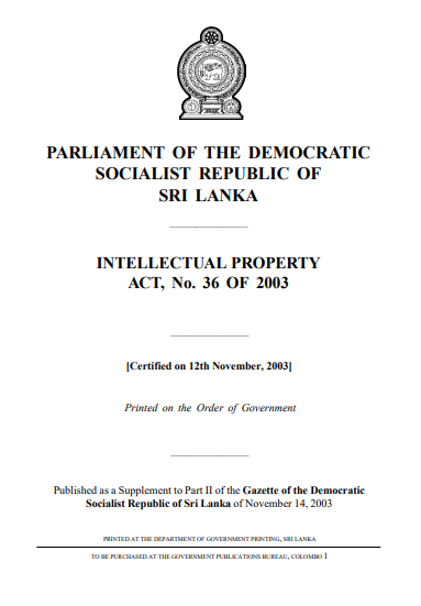 First page of the Intellectual Property Act, No. 36 of 2003 of Sri Lanka